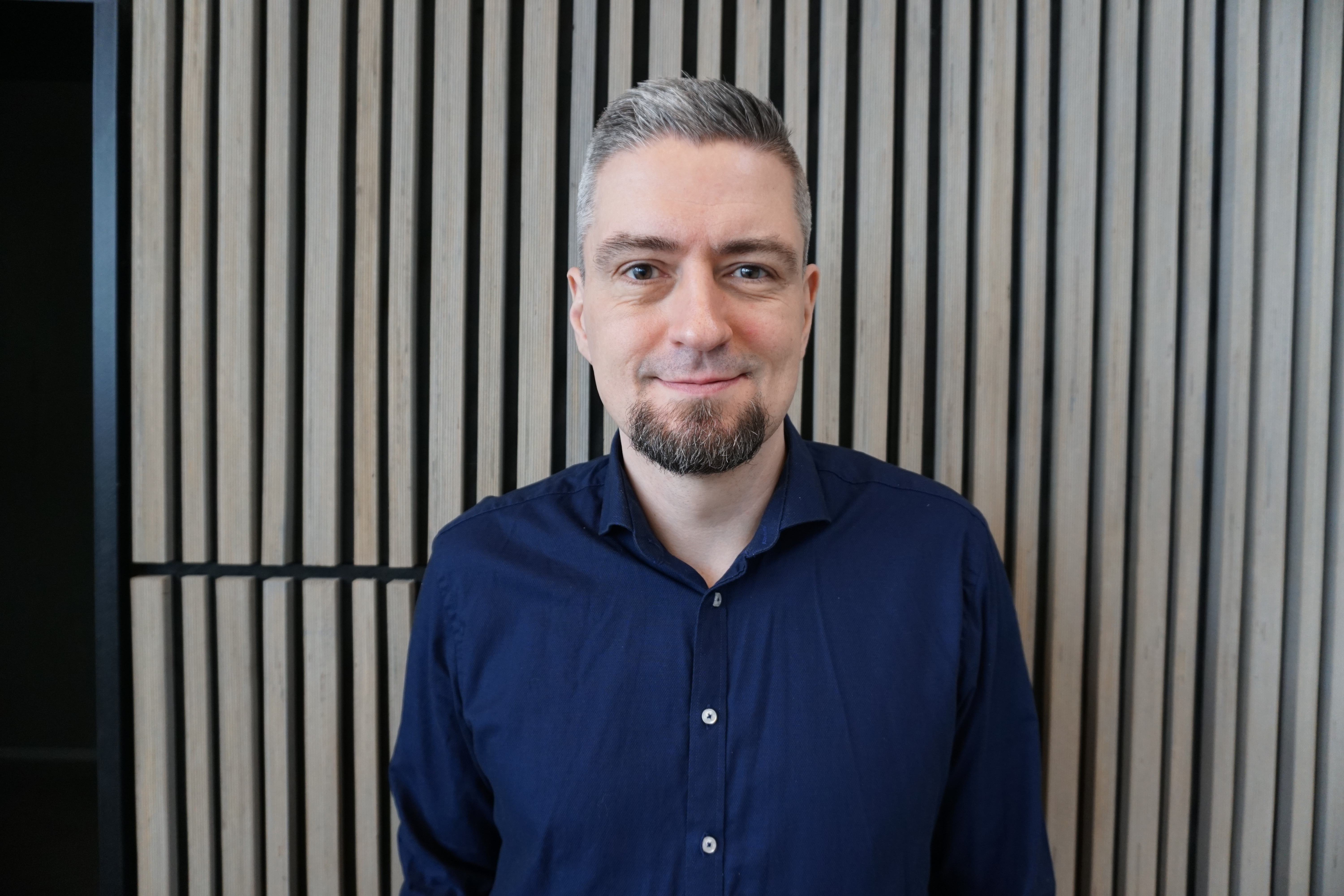 Profile picture of Professor Mads Græsbøll Christensen